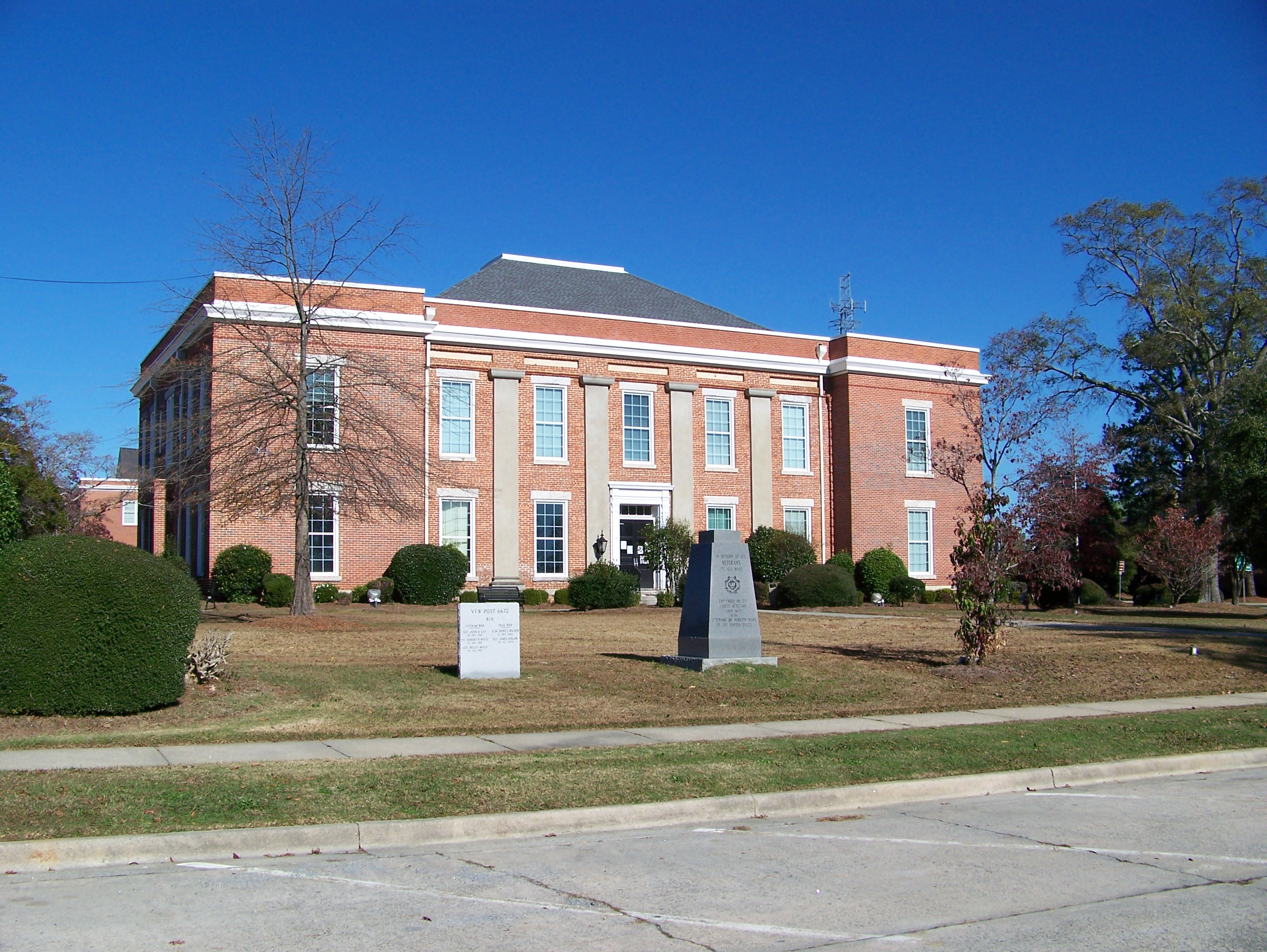 Thomson Commercial Historic District